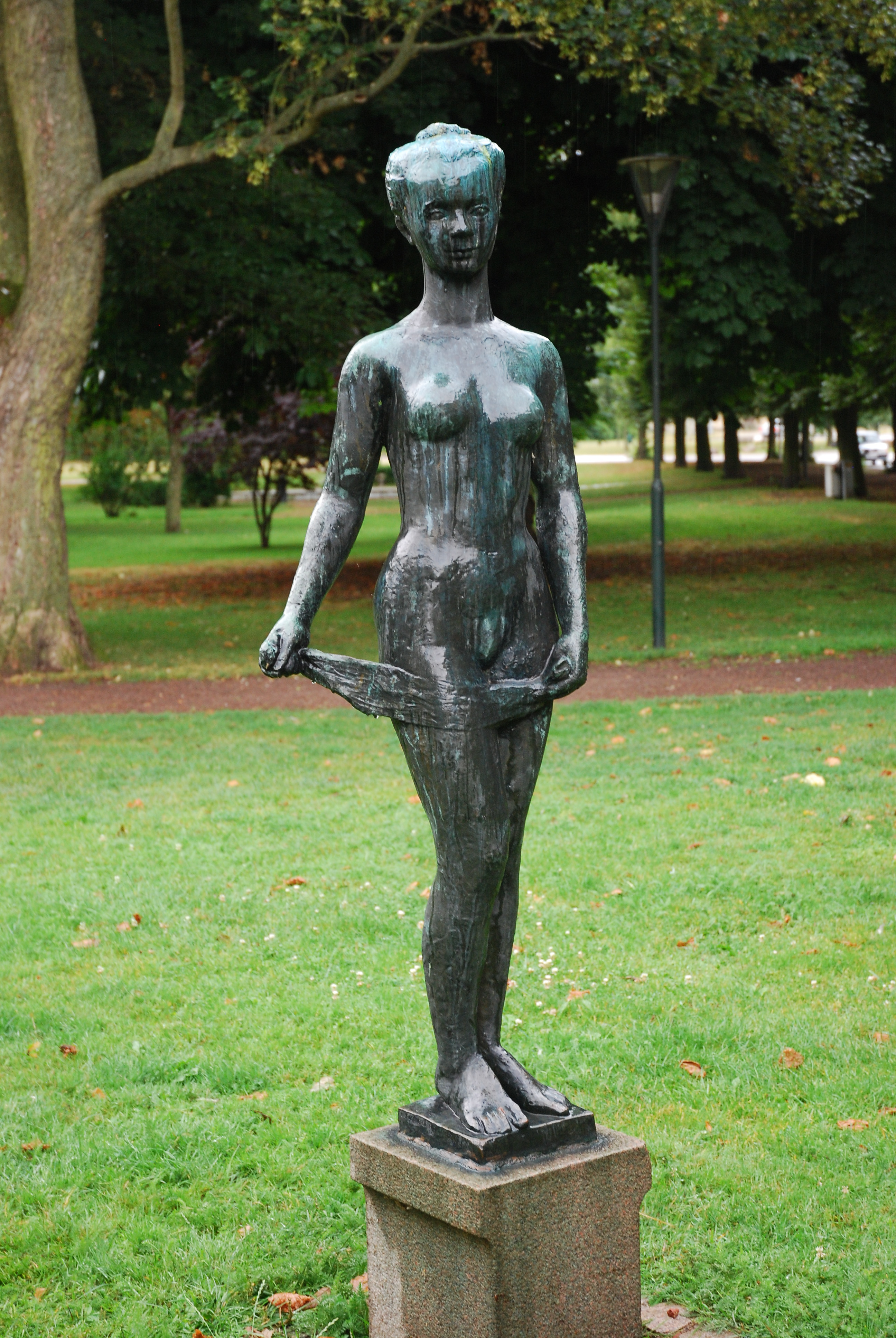 Åke Jönssons Flicka med slöja, brons, 1955, Teaterparken i Landskrona Landskrona